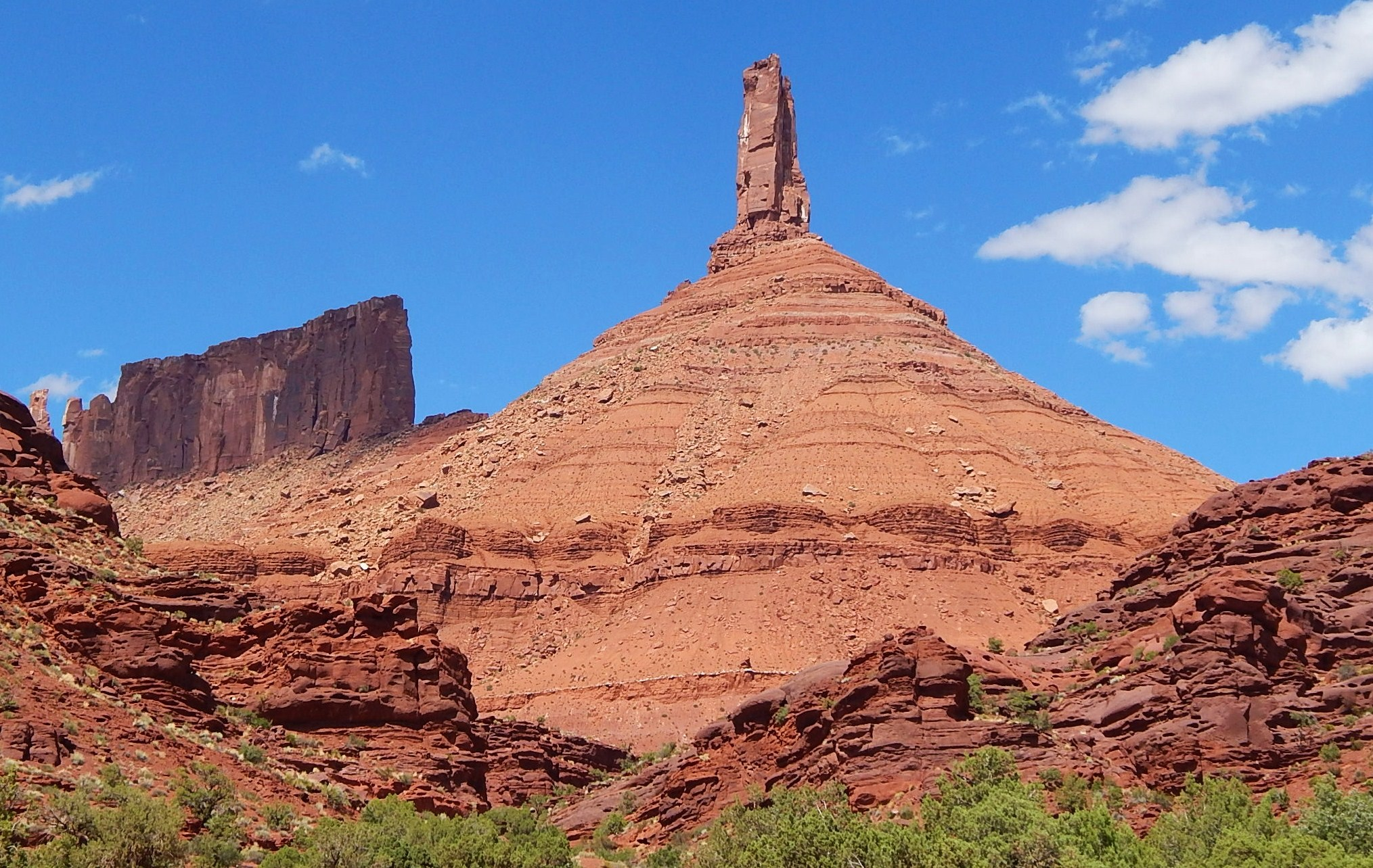 Castleton Tower and The Rectory near Moab Utah